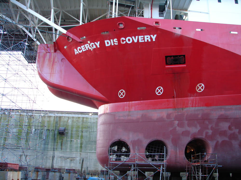 The Cable Laying & Diving Support Vessel (CLDSV) Acergy Discovery in dry dock in Brest.